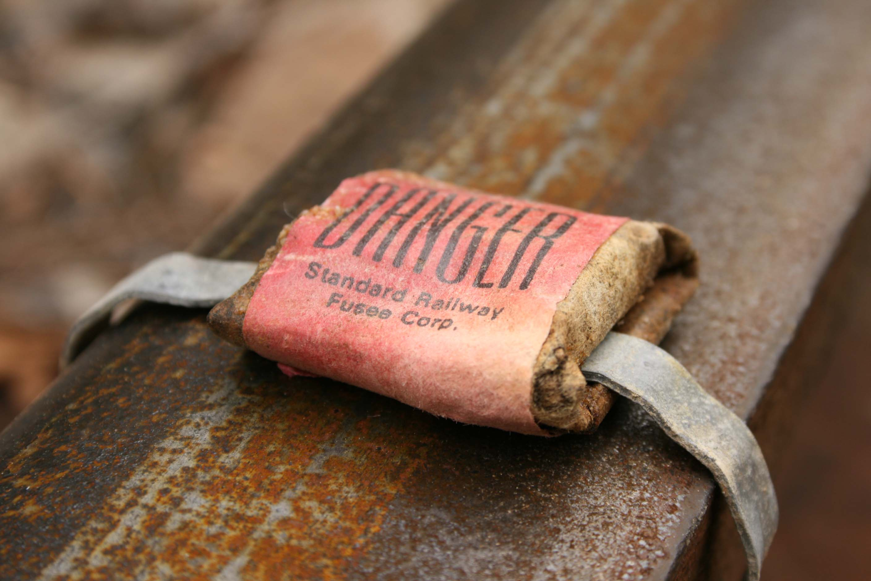 About the size of a fig newton cookie, the railroad "torpedo" was used on the CN&L (Columbia, Newberry & Laurens) railroad (later Atlantic Coast Line, Seaboard Coast Line and now CSX) and most all railroads as a signaling device to alert the train crew that a work crew was working on the track ahead or that there was some danger ahead.. Prior to working on the track, work crews strapped the torpedos to the rail using the soft, lead straps. This device was strapped to the rail about 1/4 to 1/2 mile from the work crew. They would be placed in a pattern so that when the oncoming train ran over the torpedos, the train crew would hear a bam...then bam, bam, or some pattern like that to alert them to the work crew ahead. The bang was so loud, that the work crew could hear it, too, alerting them to a train approaching. Once the track work was done for the day, the track crew removed the torpedo(s) prior to leaving the work site. Though only a "noisemaker" to a train crew, it could be dangerous to a person if handled improperly. The railway torpedo was made by the Standard Railway Fusee Corp. in Easton, MD.